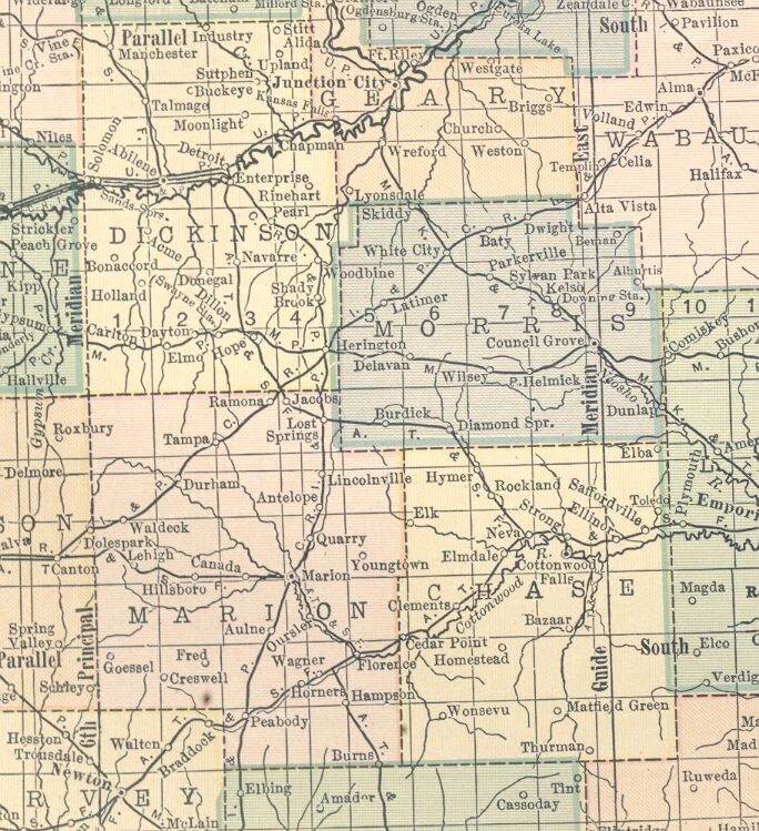 Portion of an "Atlas of the World" devoted to Chase, Dickinson, Marion, and Morris counties in the U.S. state of Kansas.